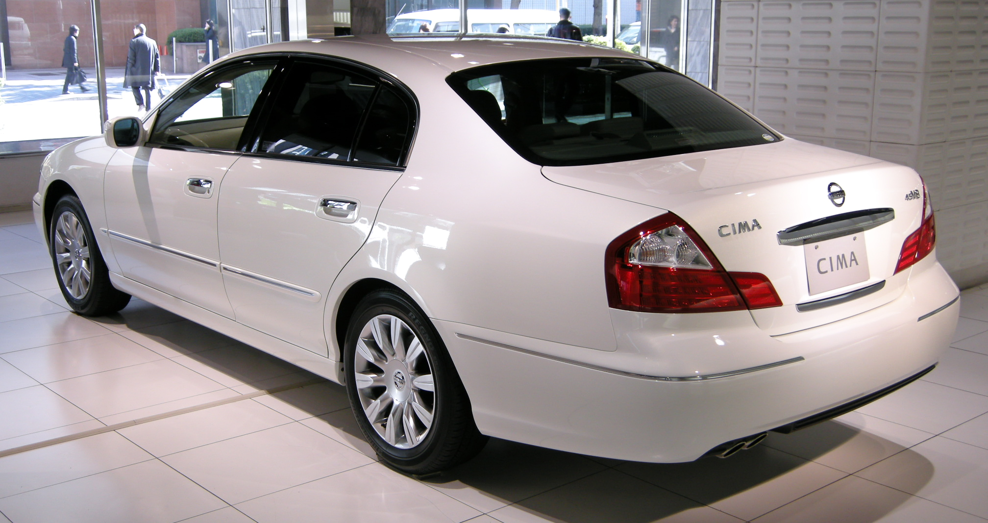 2008 Nissan Cima photographed in Nissan Gallery (Ginza, Tokyo)